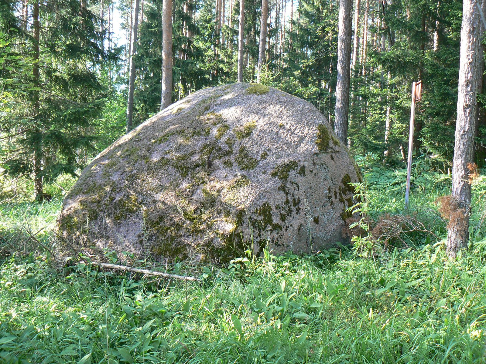 Varbla erratic